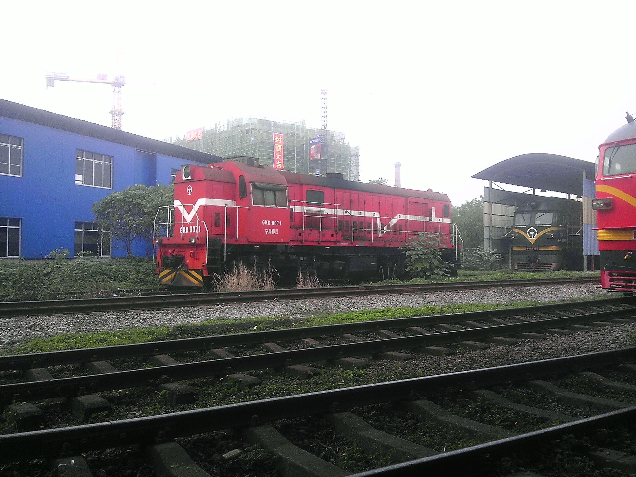 China Railways GKD1 0071 in Liuzhou Locomotive Depot.